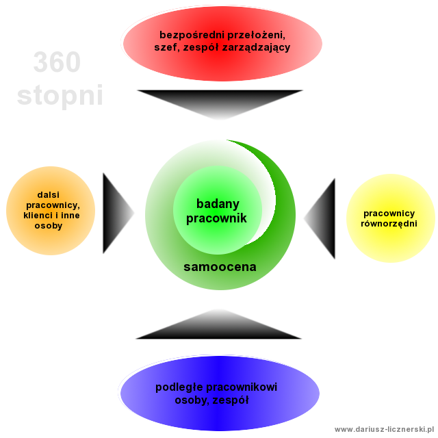 Picture: 360-degree feedback